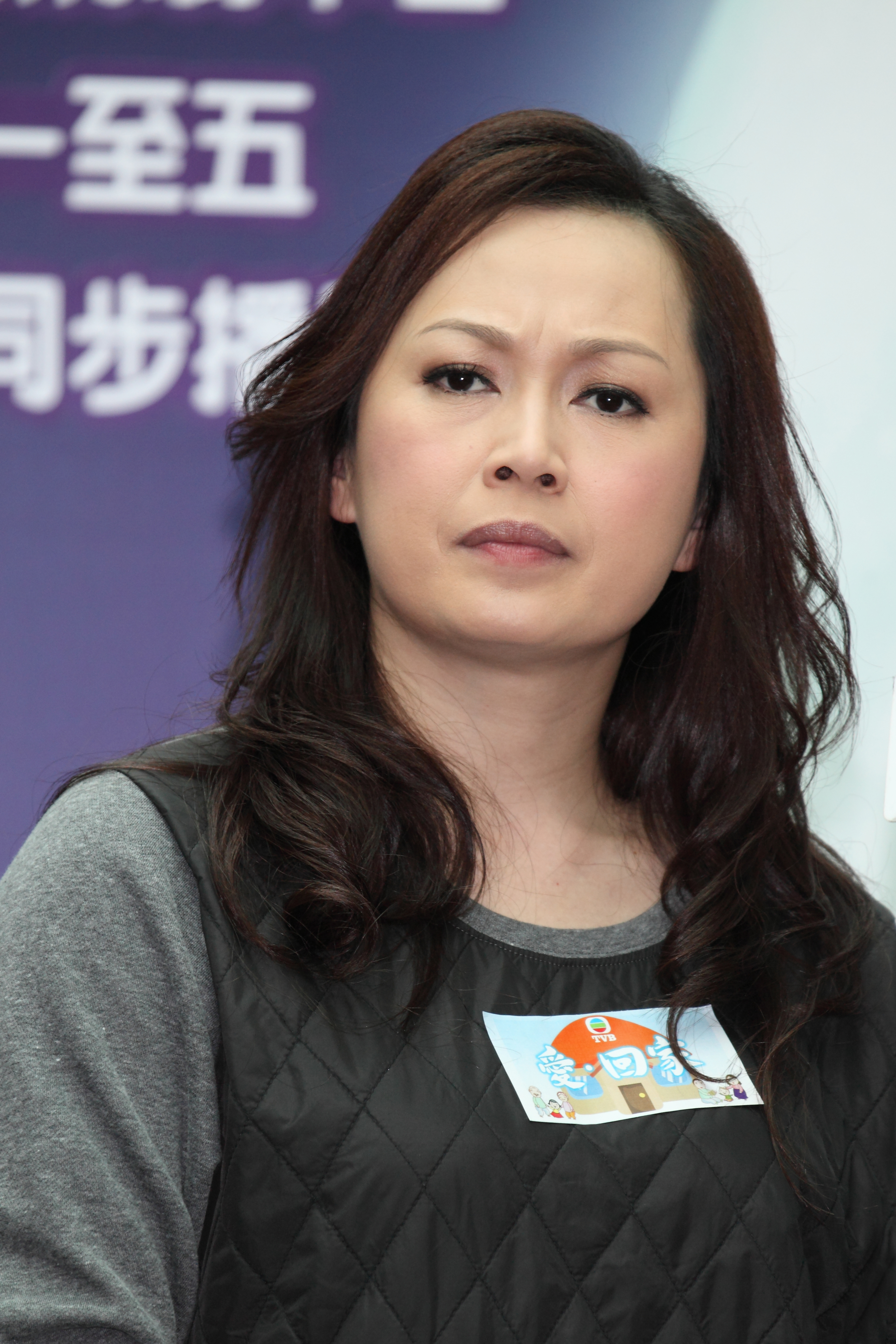 Yeow at the premiere of Come Home Love